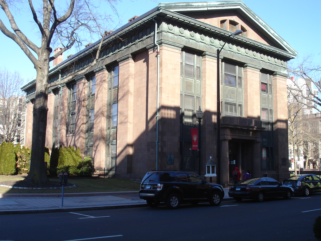 I took this photo of the Bridgeport City Hall myself of January 9, 2012.